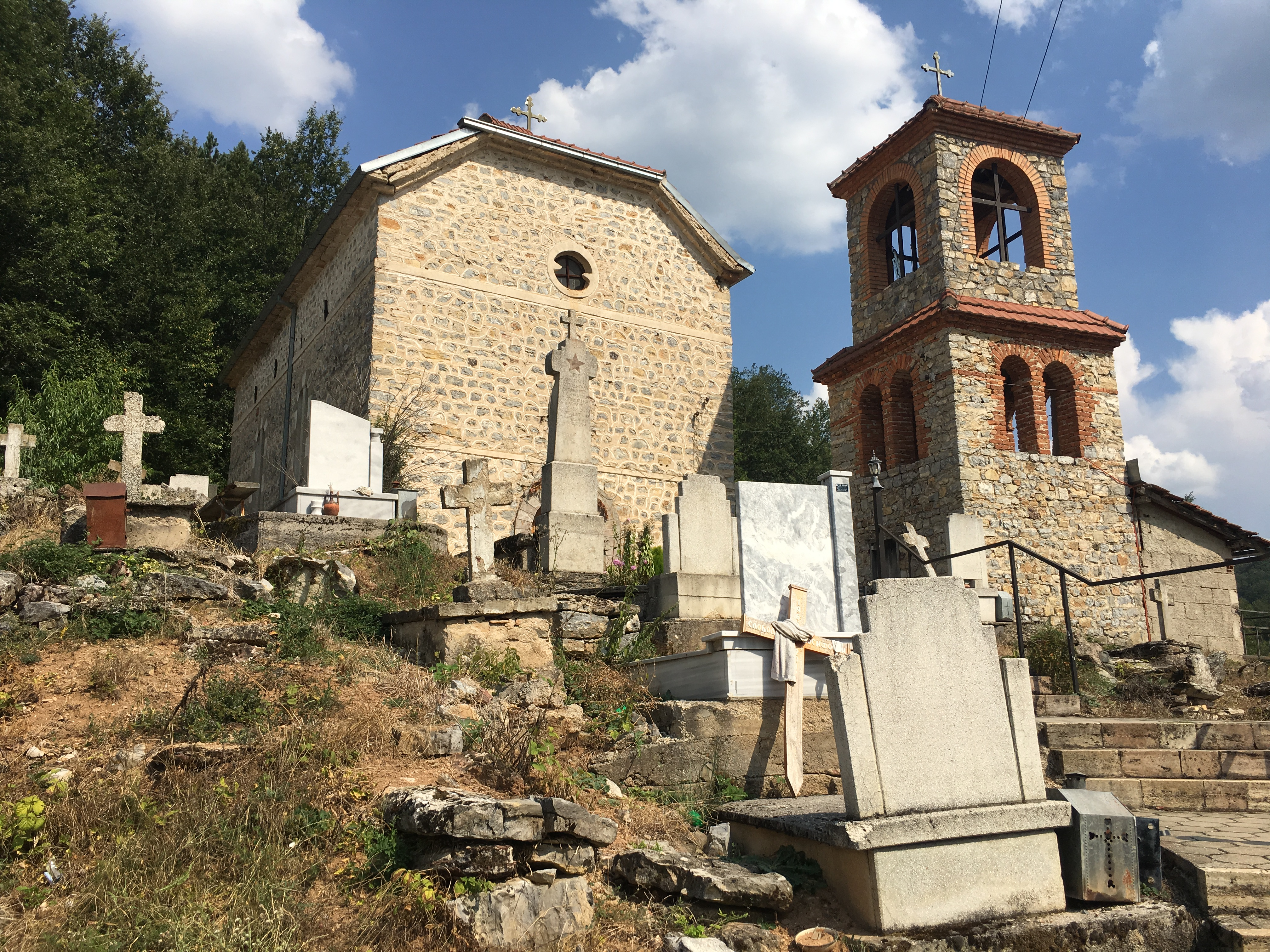 St. Nicholas Church in the village of Kuratica